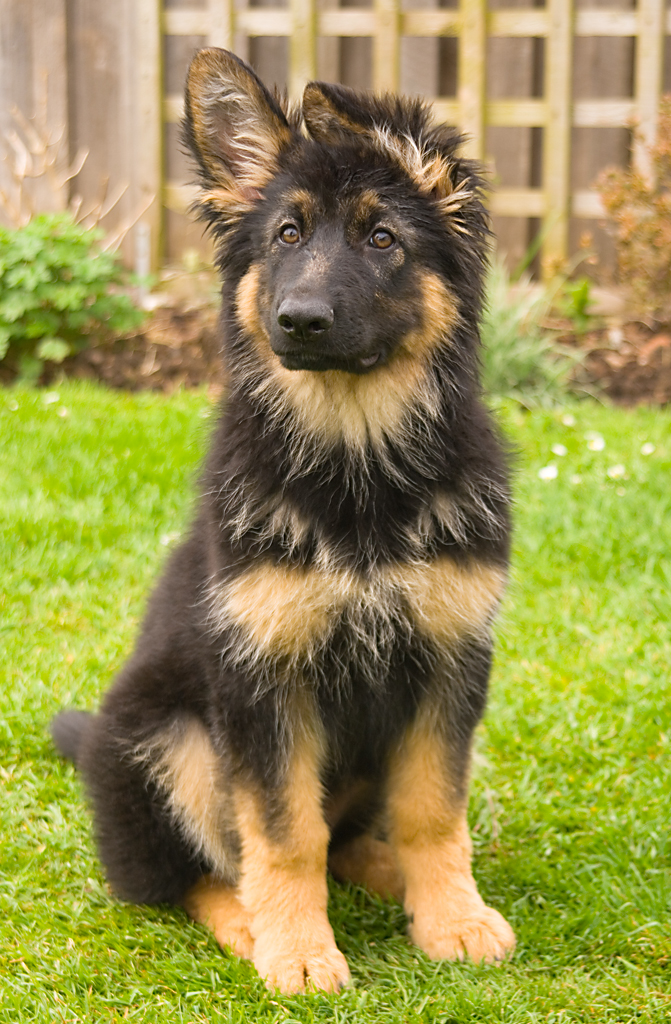 14 week old German Shepherd puppy. One ear down.